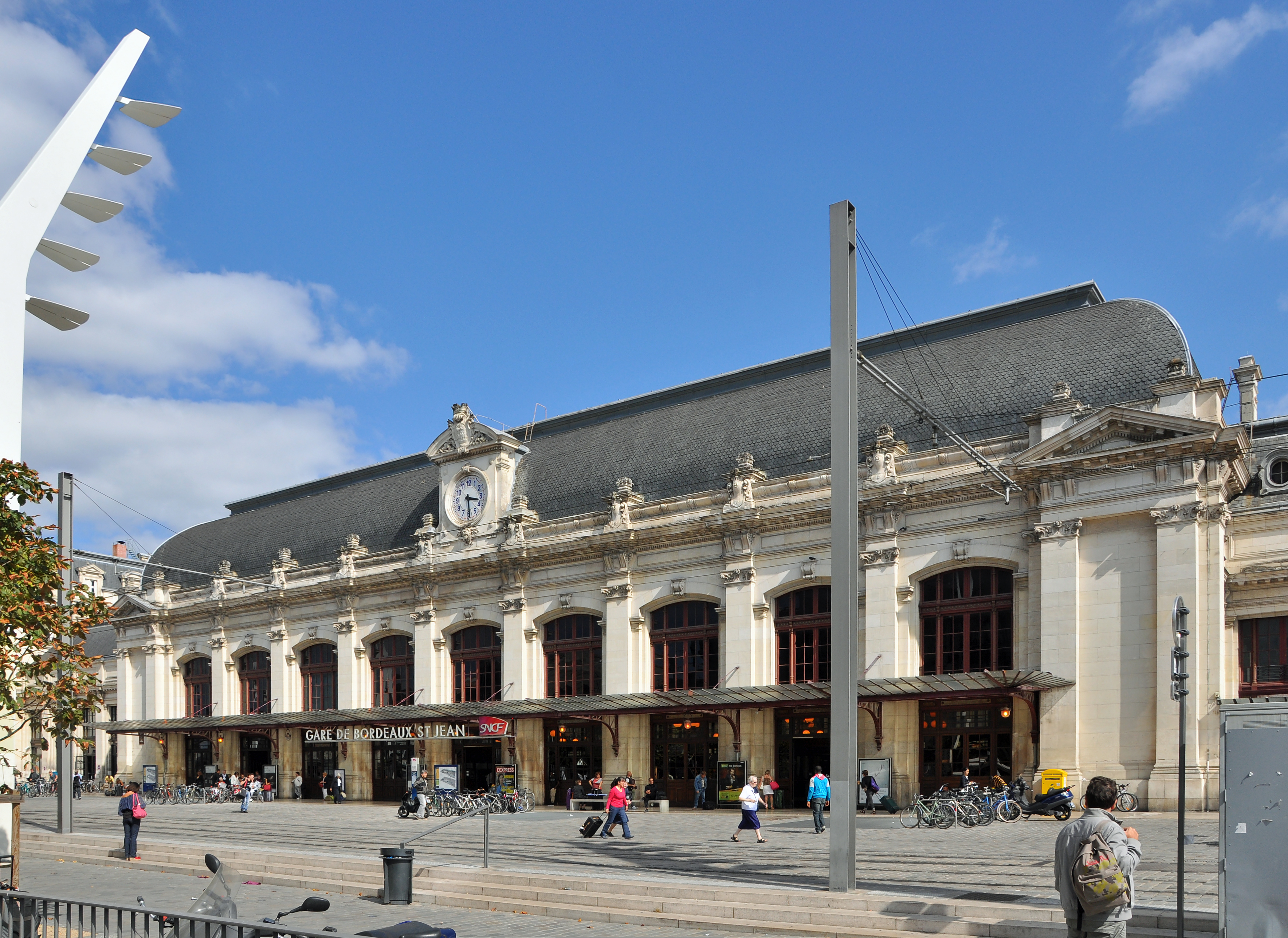 Bordeaux (France): Bordeaux-Saint-Jean train station.